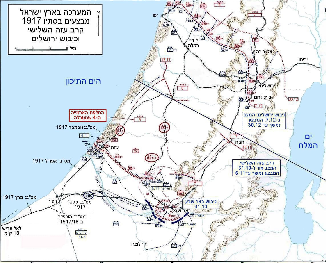 Palestine-WW1